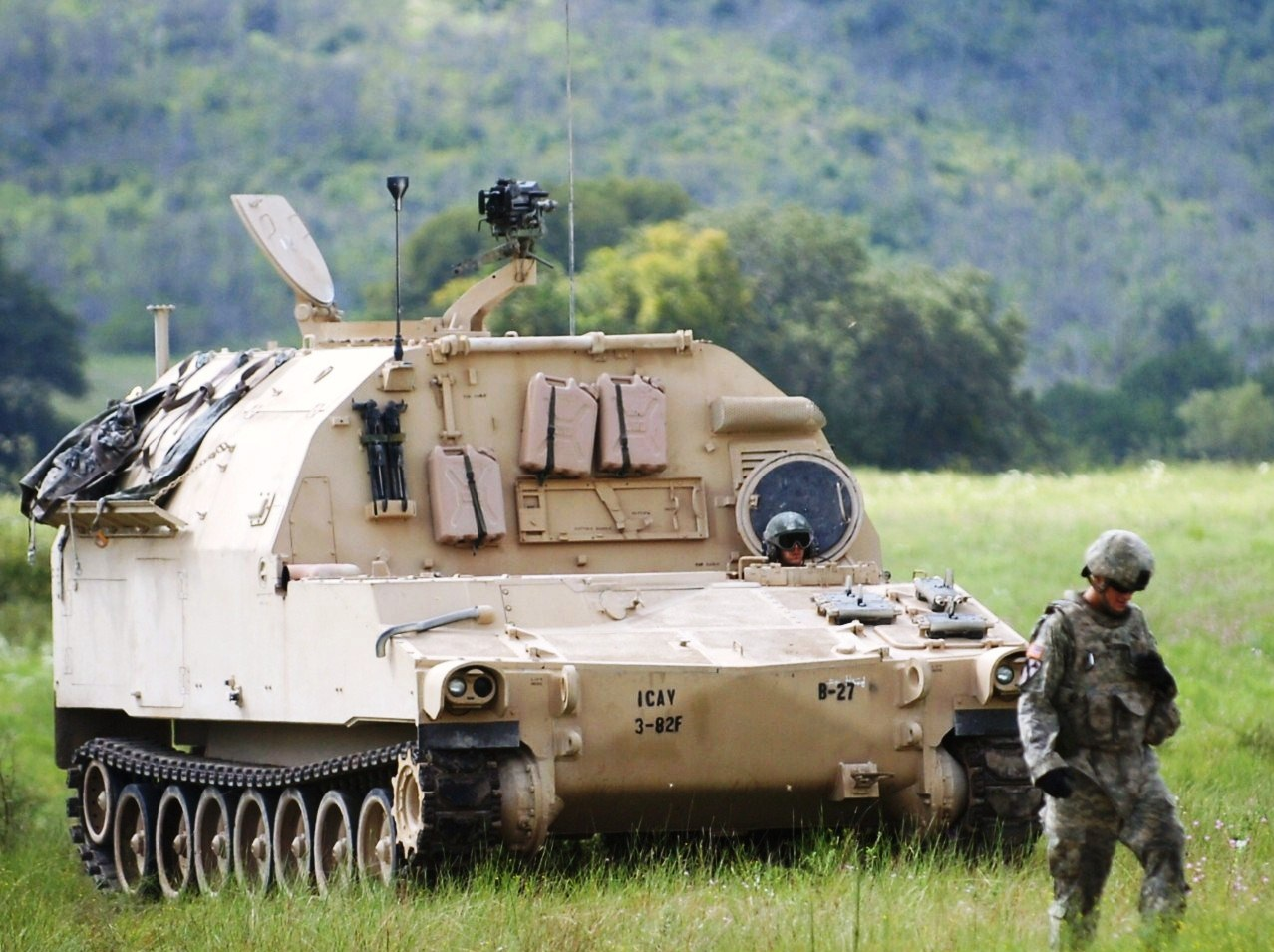 Artillerymen from Battery B, 3rd Battalion, 82nd Field Artillery Regiment, 2nd Brigade Combat Team, 1st Cavalry Division, move an M992A2 Field Artillery Ammunition Supply Vehicle across a range to provide support during the 3rd Bn., 82nd FA Regt.'s Paladin live-fire exercise Sept. 22 on Fort Hood. Photo Credit: Sgt Quentin Johnson, 2nd BCT PAO, 1st Cav. Div.